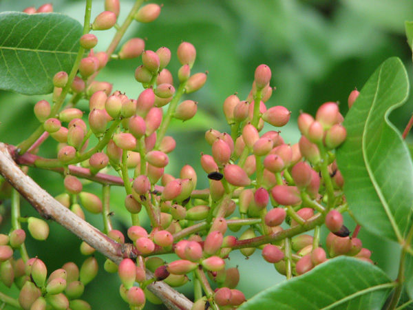 Pistacia terebinthus fruits